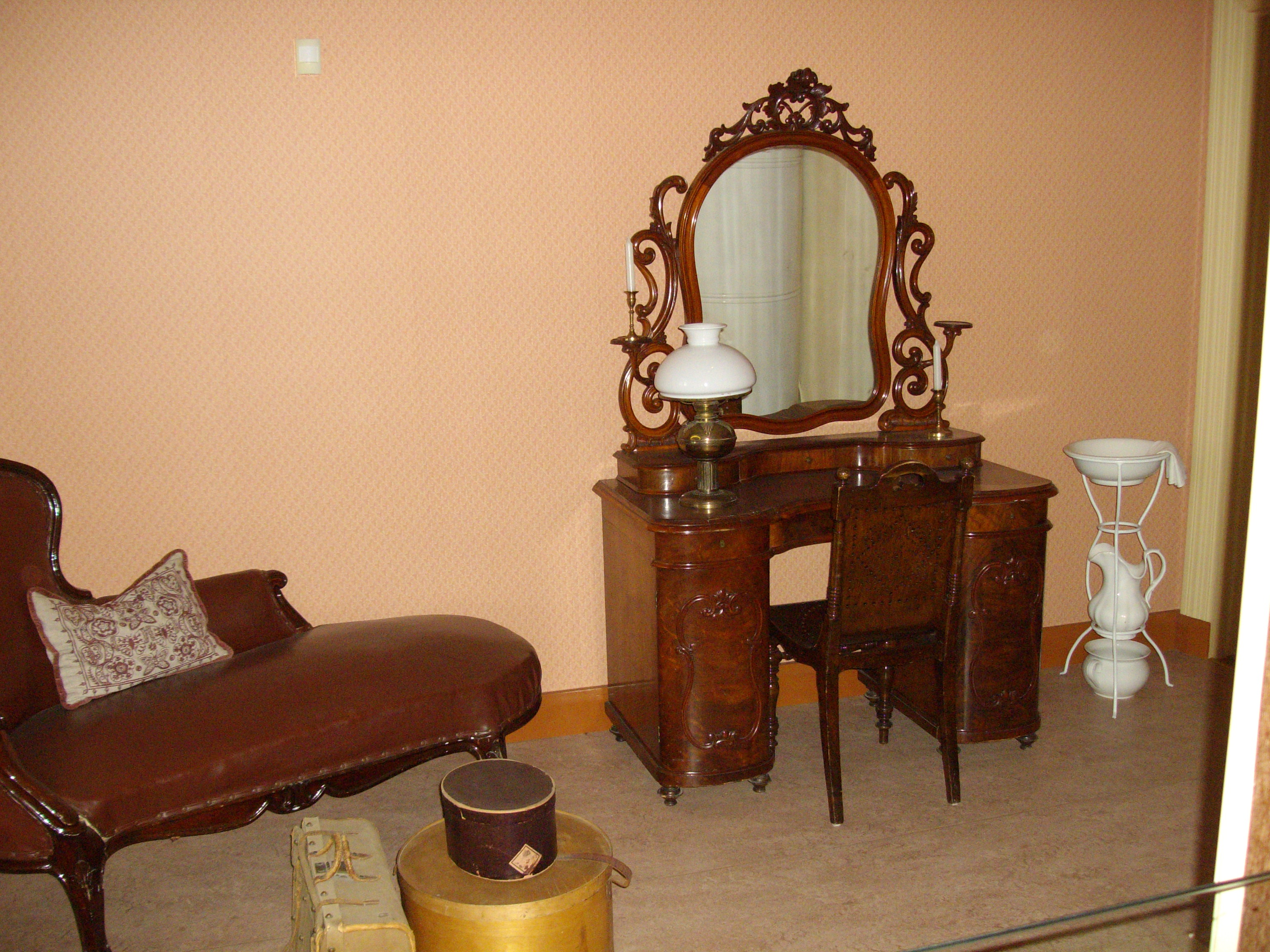 Historical interior on Waiting Room for Ladies in Finnish State Railways, Finnish Railway Museum, Hyvinkää, Finland